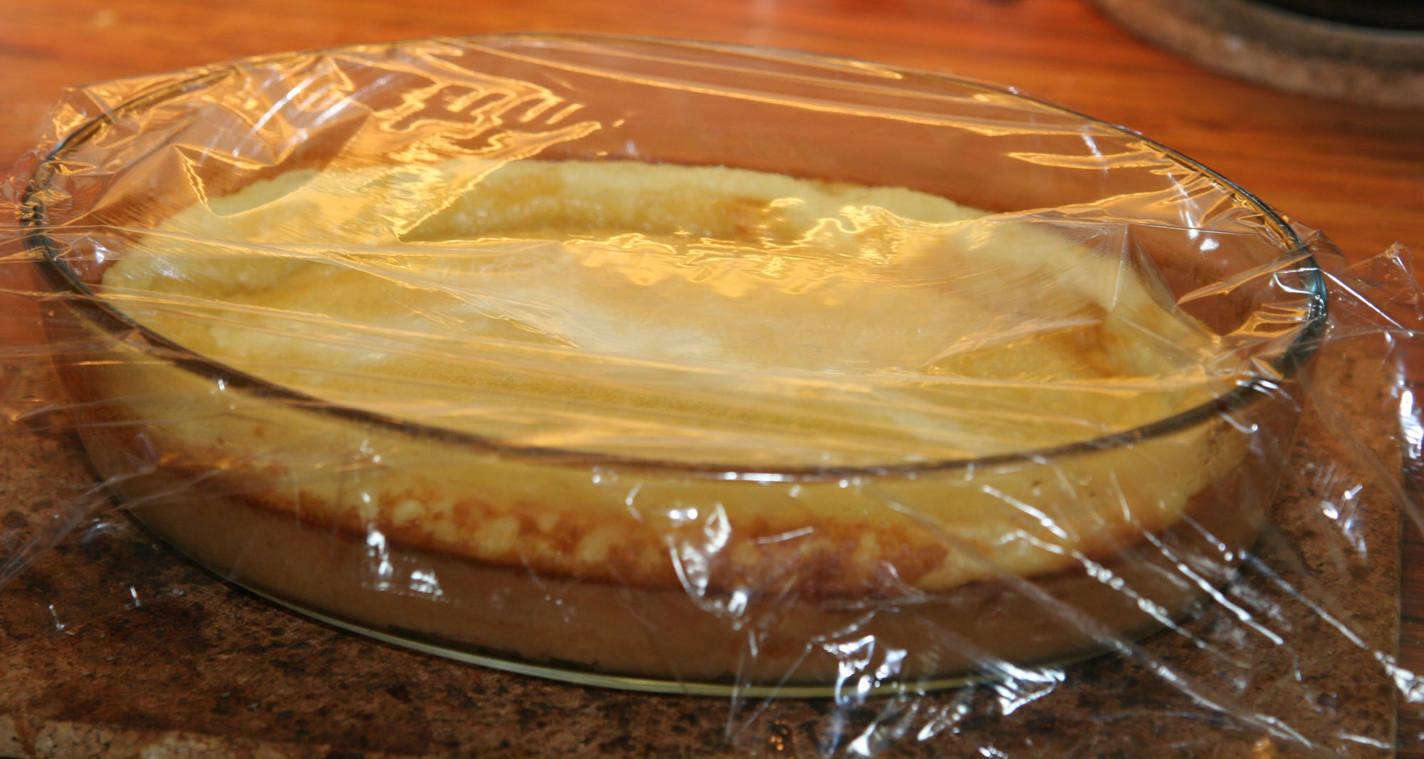 Plastic wrap on top of a vessel.